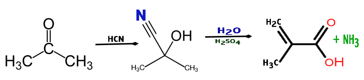 Methacrylic acid synthesis from acetone-cyanohydrin